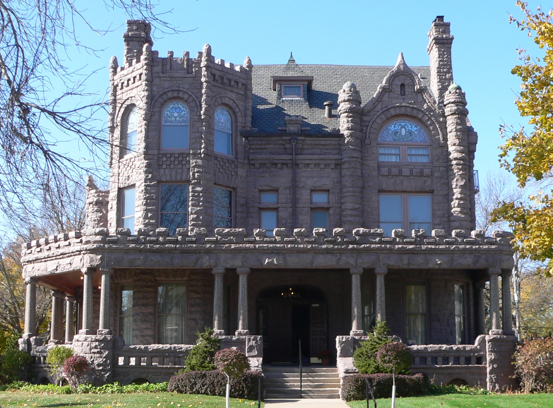 Peirce Mansion, located at northwest corner of 29th and Jackson Street in Sioux City, Iowa; seen from the east.